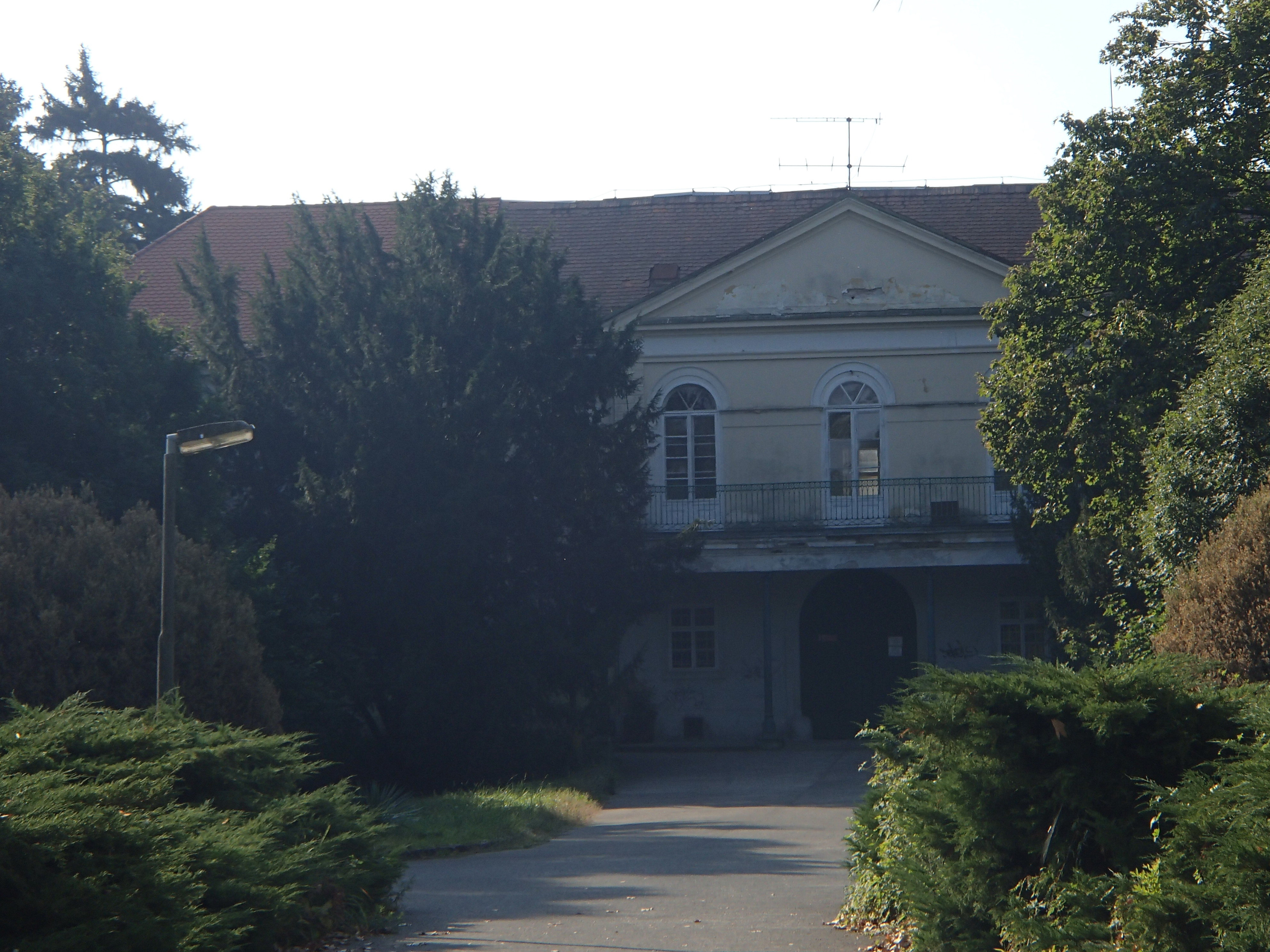 Manor house of Malinova